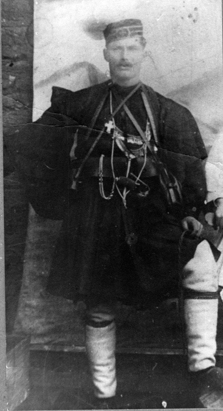 Konstantinos Vudrislis greek revolutionary